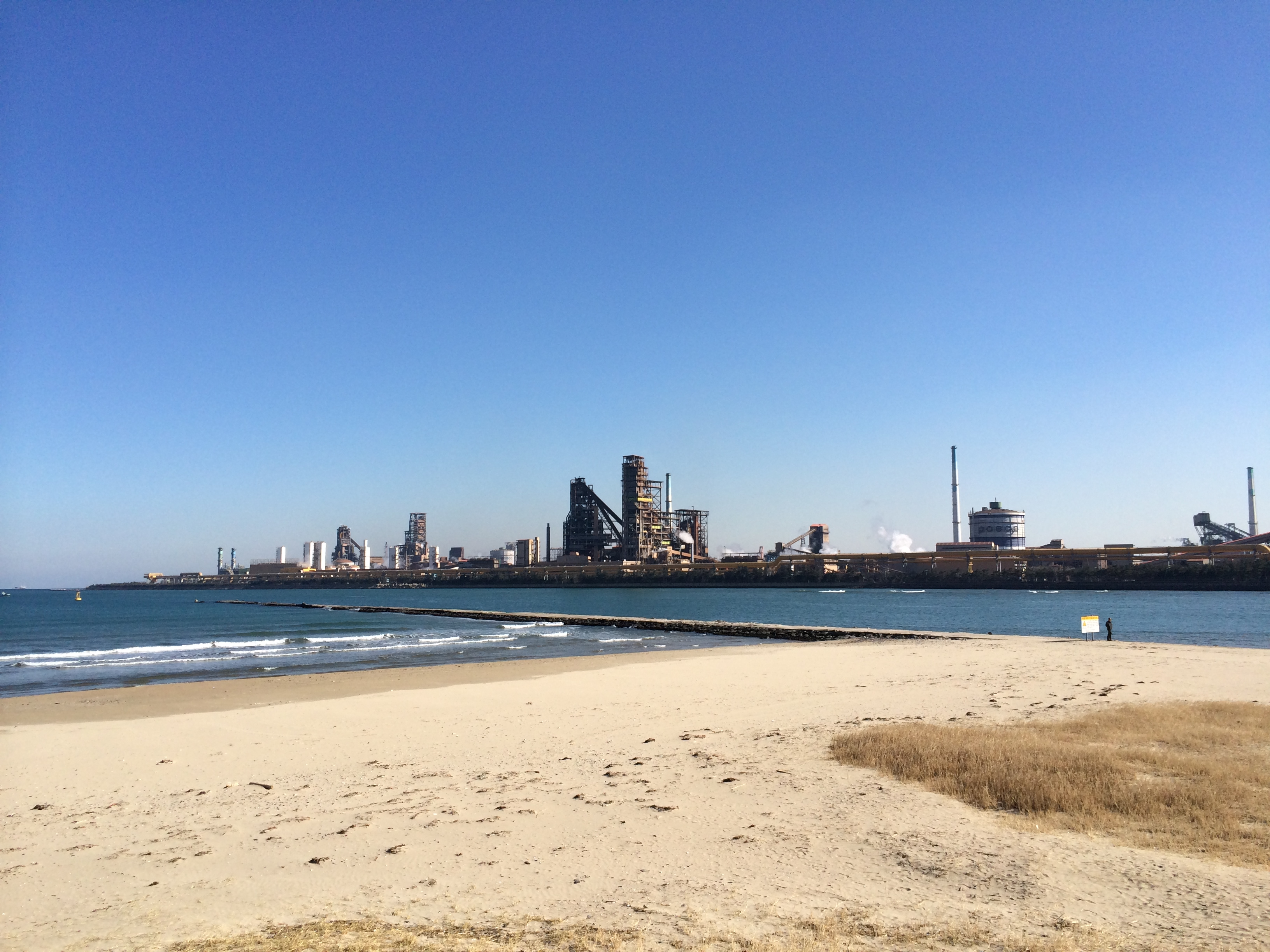 POSCO viewed at Songdo beach